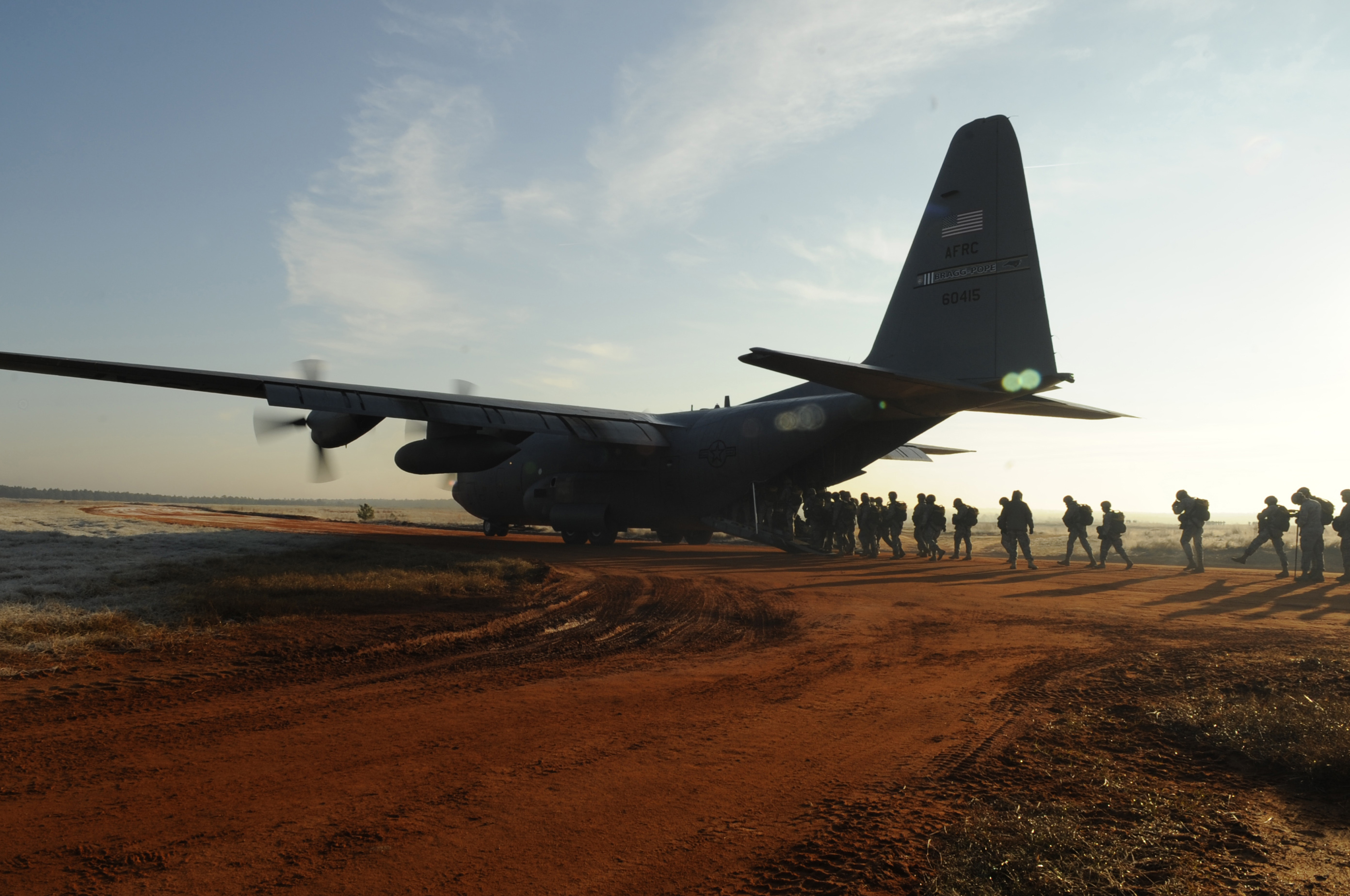 A U.S. Air Force C-130 Hercules from the 2nd Airlift Squadron, 440th Airlift Wing out of Pope Air Force Base, N.C., parks at a drop zone at Fort Bragg, N.C., on Dec. 6, 2008. Soldiers from the 82nd Airborne Division are being picked up so they can jump to earn foreign jump wings during Operation Toy Drop. Operation Toy Drop is an annual jump hosted by the U.S. Army Civil Affairs and Psychological Operations Command (Airborne), and supported by Fort Bragg's XVIII Airborne Corps and Pope Air Force Baseís 43rd Airlift Wing. In its 11th year, Operation Toy Drop gives soldiers and airmen the opportunity to help local families in need while boosting morale and incorporating valuable training. DoD photo by Staff Sgt. DeNoris A. Mickle, U.S. Air Force. (Released)